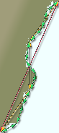 The eastern coastline of Sweden